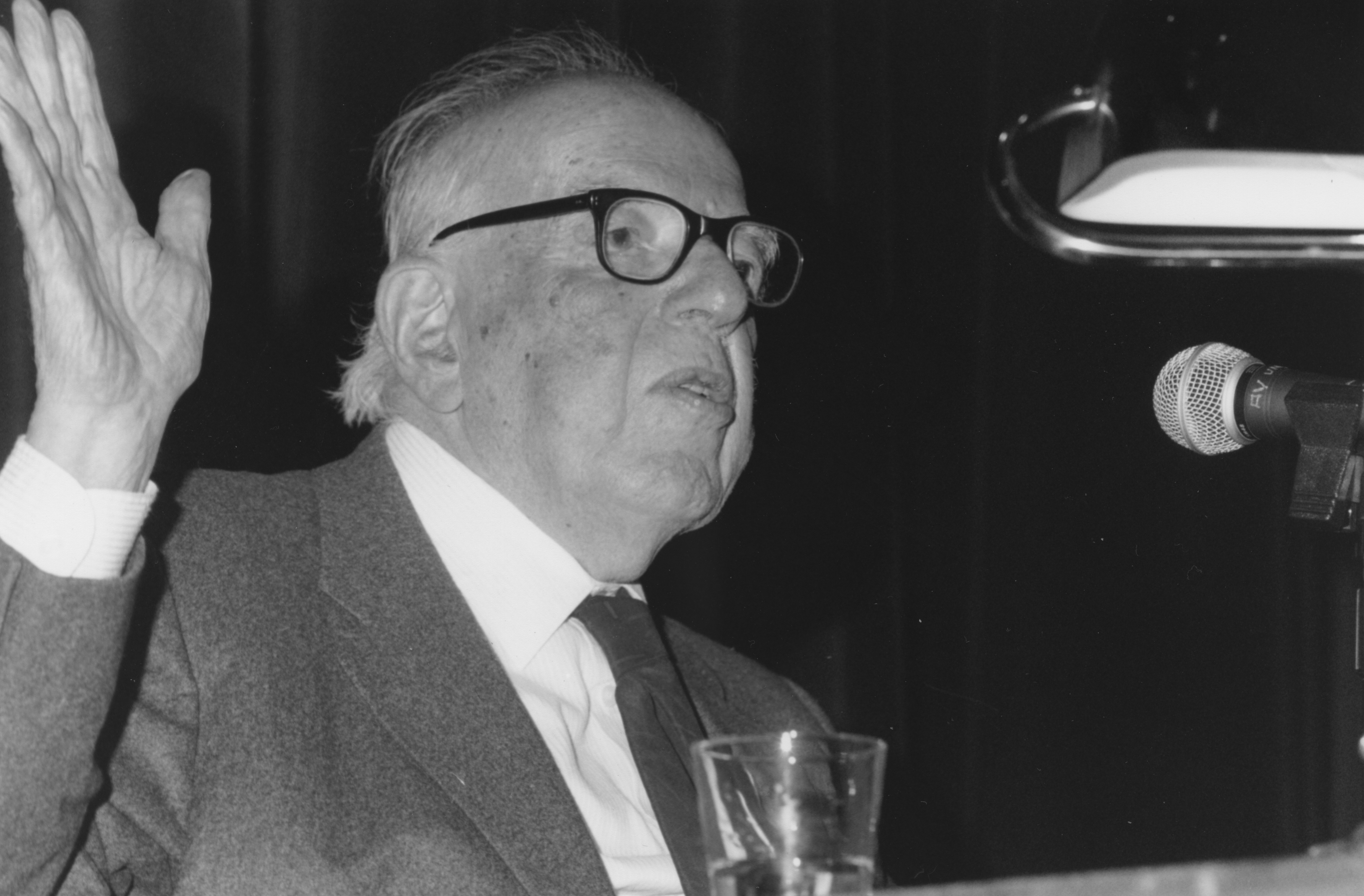 Professor of Philosophy, Logic and Scientific Method 1962-84. IMAGELIBRARY/1133 Persistent URL